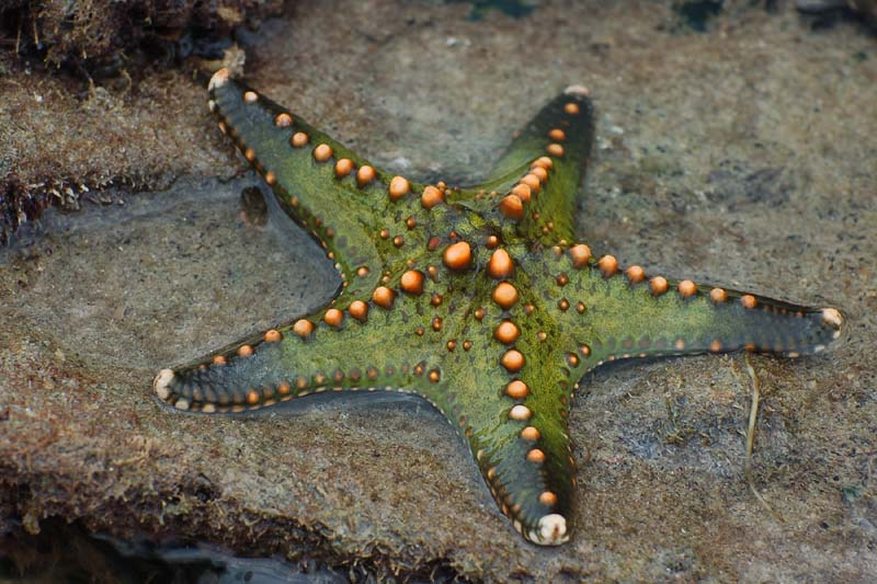 Unknown Starfish species, Lazy Lagoon, near Bagamoyo, Tanzania.